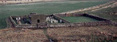 St. Mary's Chapel, Wyre, Orkney Islands, Scotland.